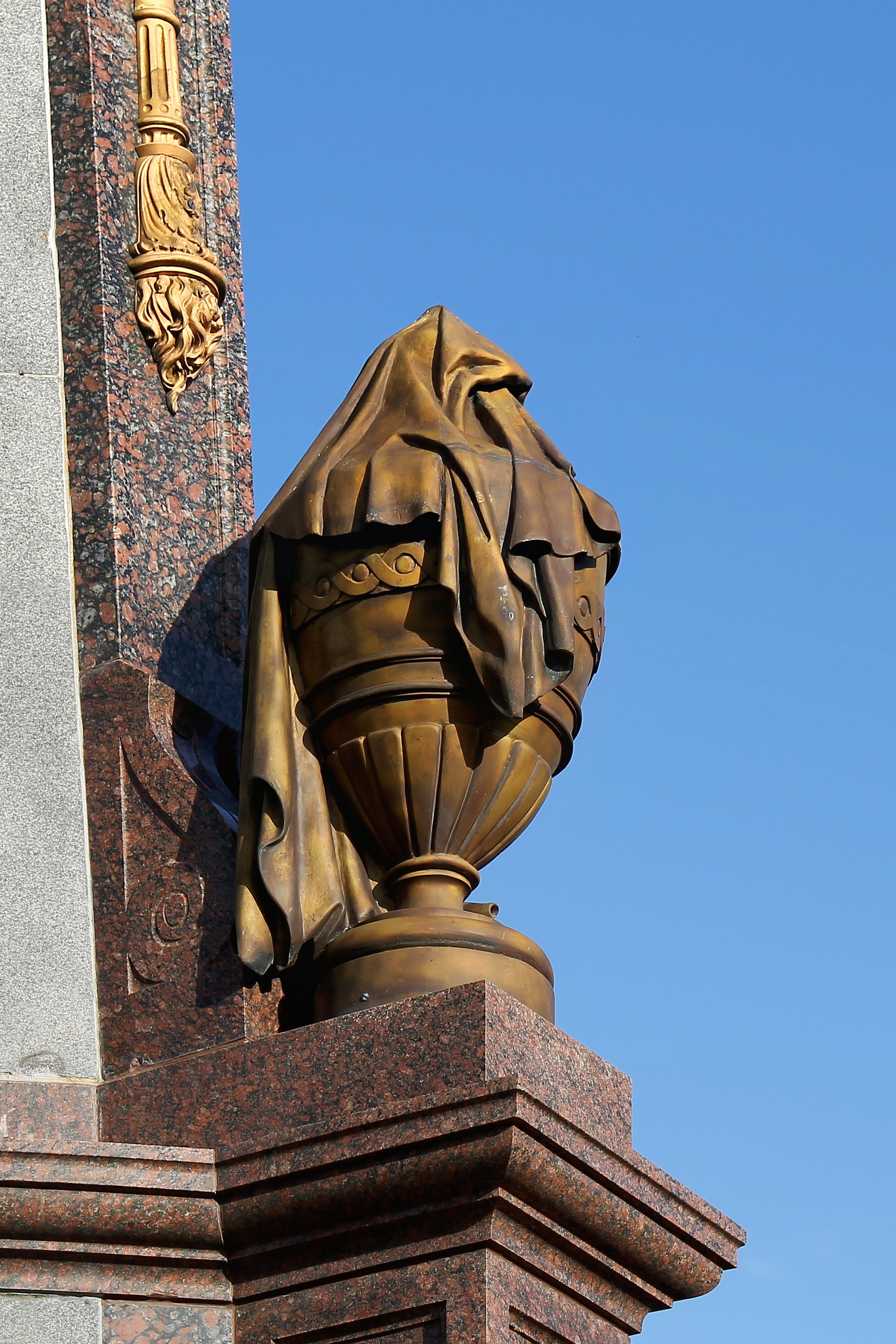 Detail of the grave memorial of the Scholten family at the Zuiderbegraafplaats, a cemetery in the Dutch city of Groningen.